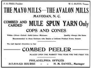 Advertisement for the Avalon and Mayo cotton mills in Rockingham County, North Carolina. From American Wool and Cotton Reporter, (Boston) March 31, 1910.